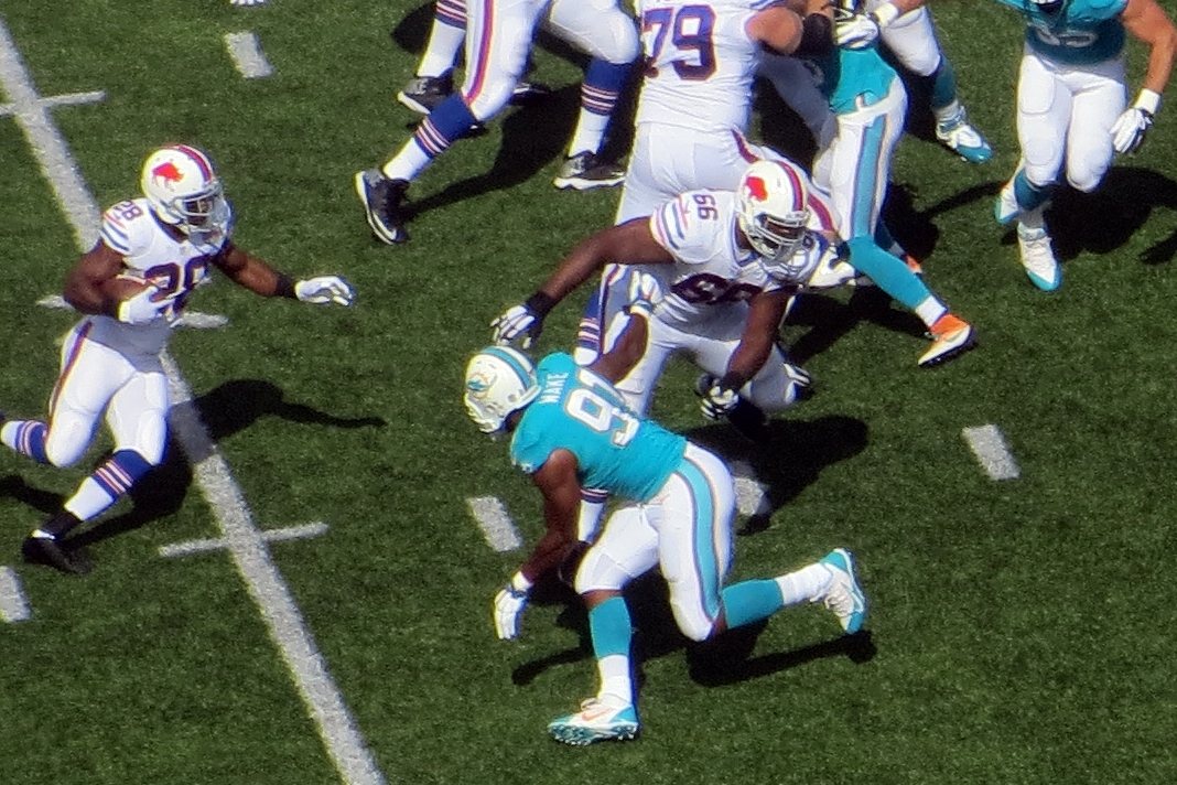 14 September 2014. Final score: Buffalo 29, Miami 10. Spiller had 12 carries for 69 yards, and 1 touchdown on a kickoff return.